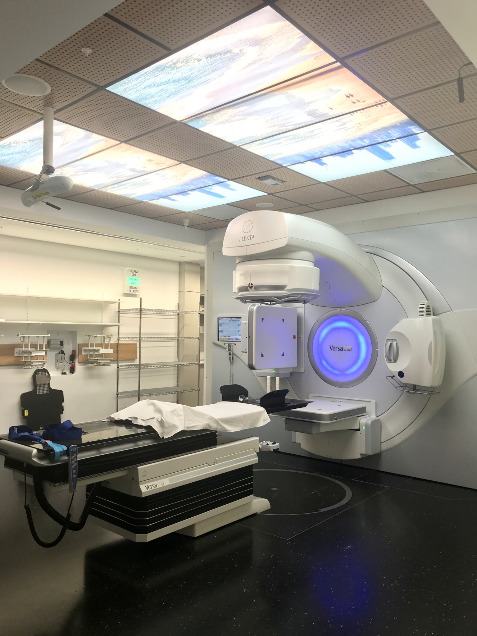 Elekta Versa HD linear accelearator at the Gold Coast University Hospital